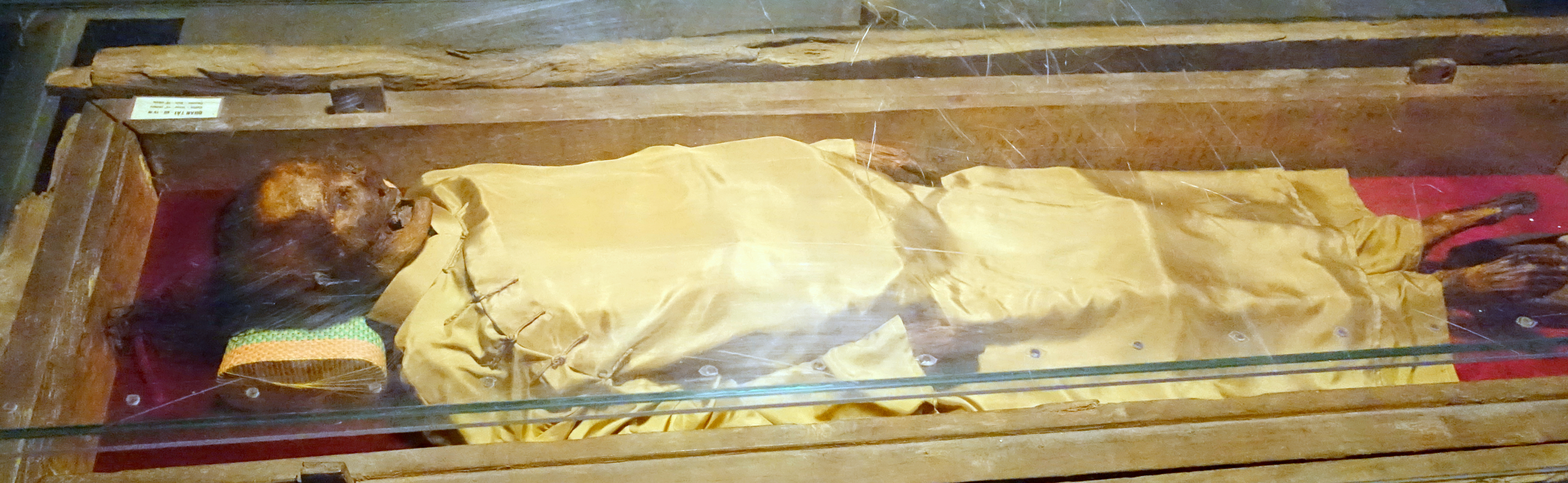 Exhibit in the Museum of Vietnamese History, Ho Chi Minh City, Vietnam. This work is old enough so that it is in the public domain.